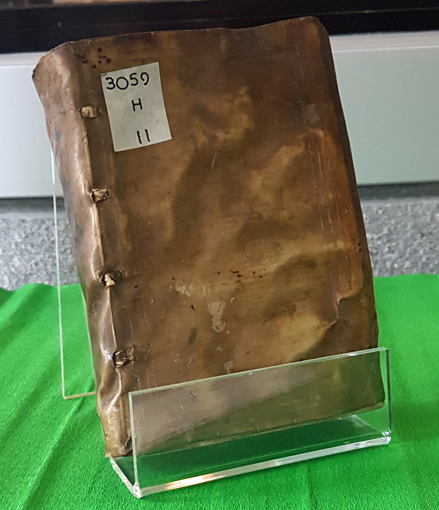 Antoine Mizaud: Historia hortensium quatuor opusculis methodicis contexta (1577). Photographed at an exhibition on books about herbs and herbal medicine in the inner city branch of the university library of Maastricht University at Nieuwenhofstraat/Grote Looiersstraat, Maastricht, the Netherlands.